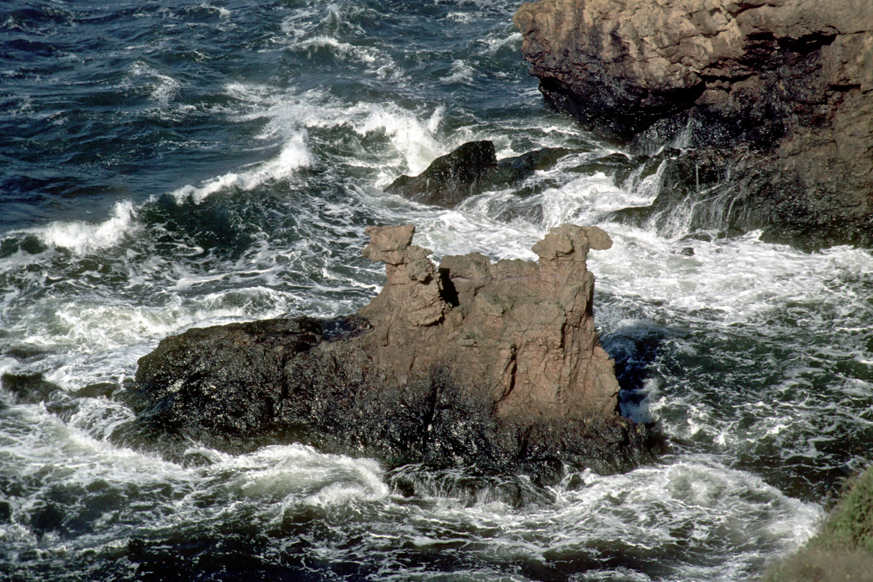 Camel heads at North Bornholm